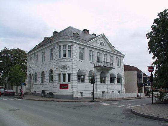 The old Levanger savings bank building